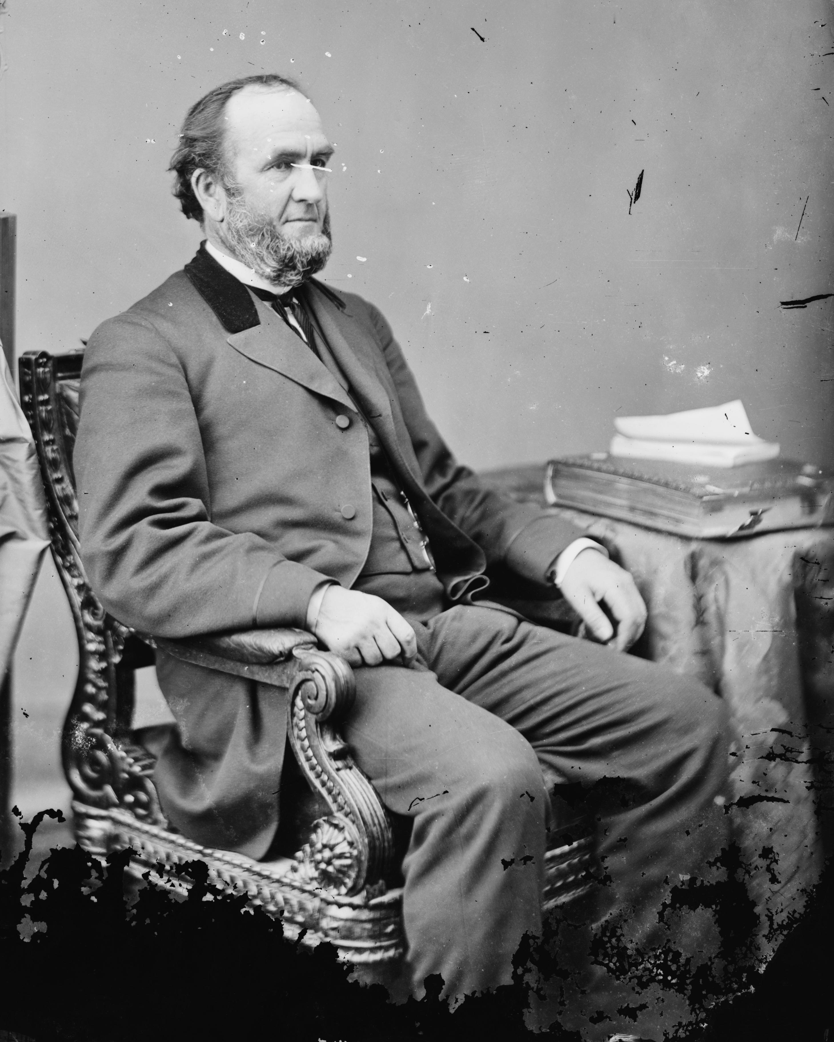 Austin F. Pike. Library of Congress description: "Hon. Austin Franklin Pike of N.H."